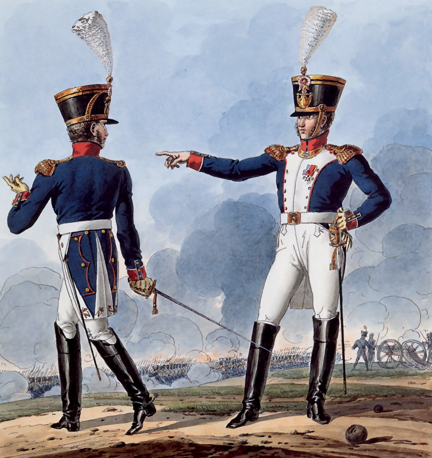 Part of a series chronicling the uniforms of Napoleon's Grande Armée.